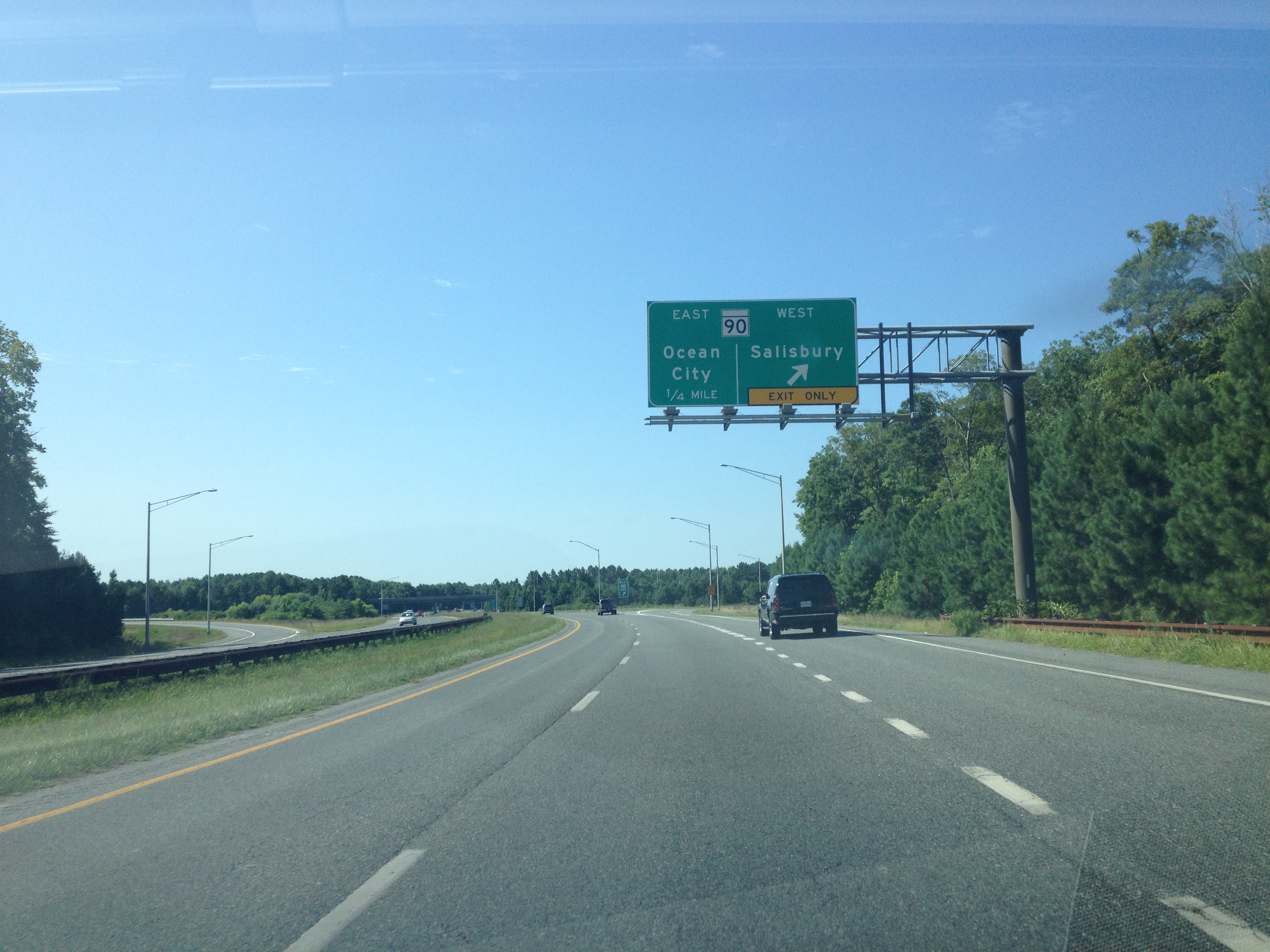 Southbound U.S. Route 113 at the exit for westbound Maryland Route 90 near Friendship, Maryland.